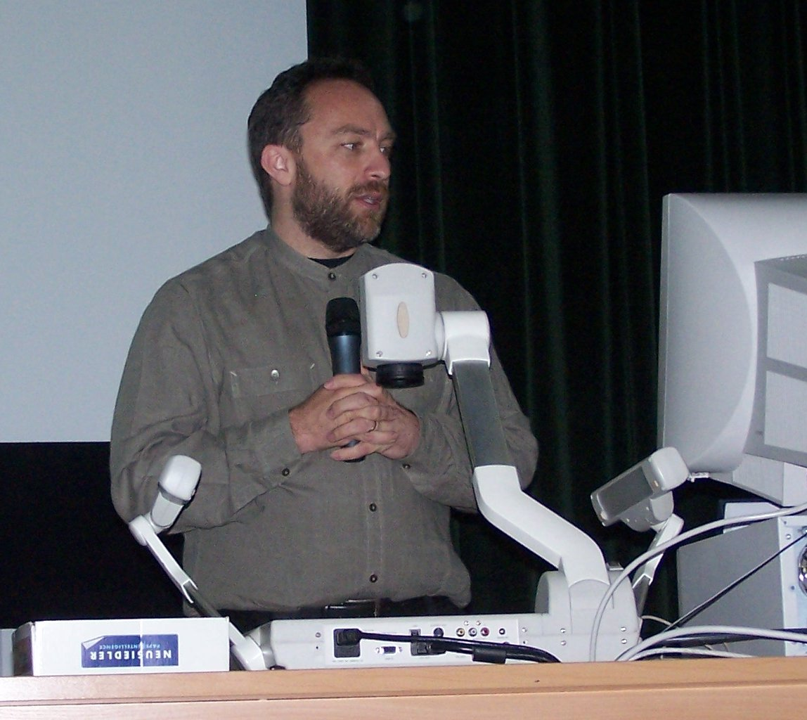 Jimmy Wales, lecture at 5th birthday of Polish Wikipedia